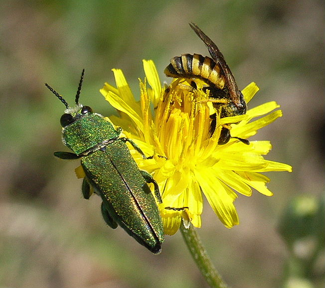 Anthaxia hungarica male and other insect on flower